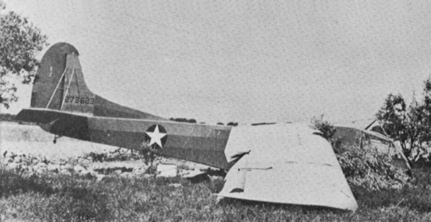 A wrecked U.S. Army Air Force Waco CG-4A glider (s/n 42-73623) in Sicily in July 1943.